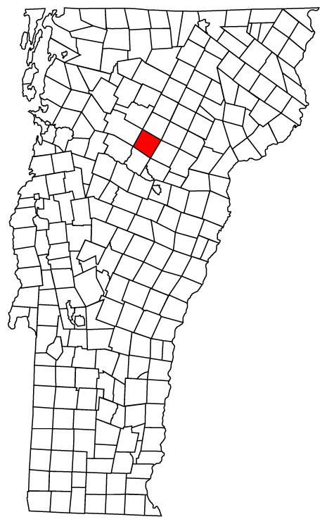 Map of Vermont towns with Worcester highlighted